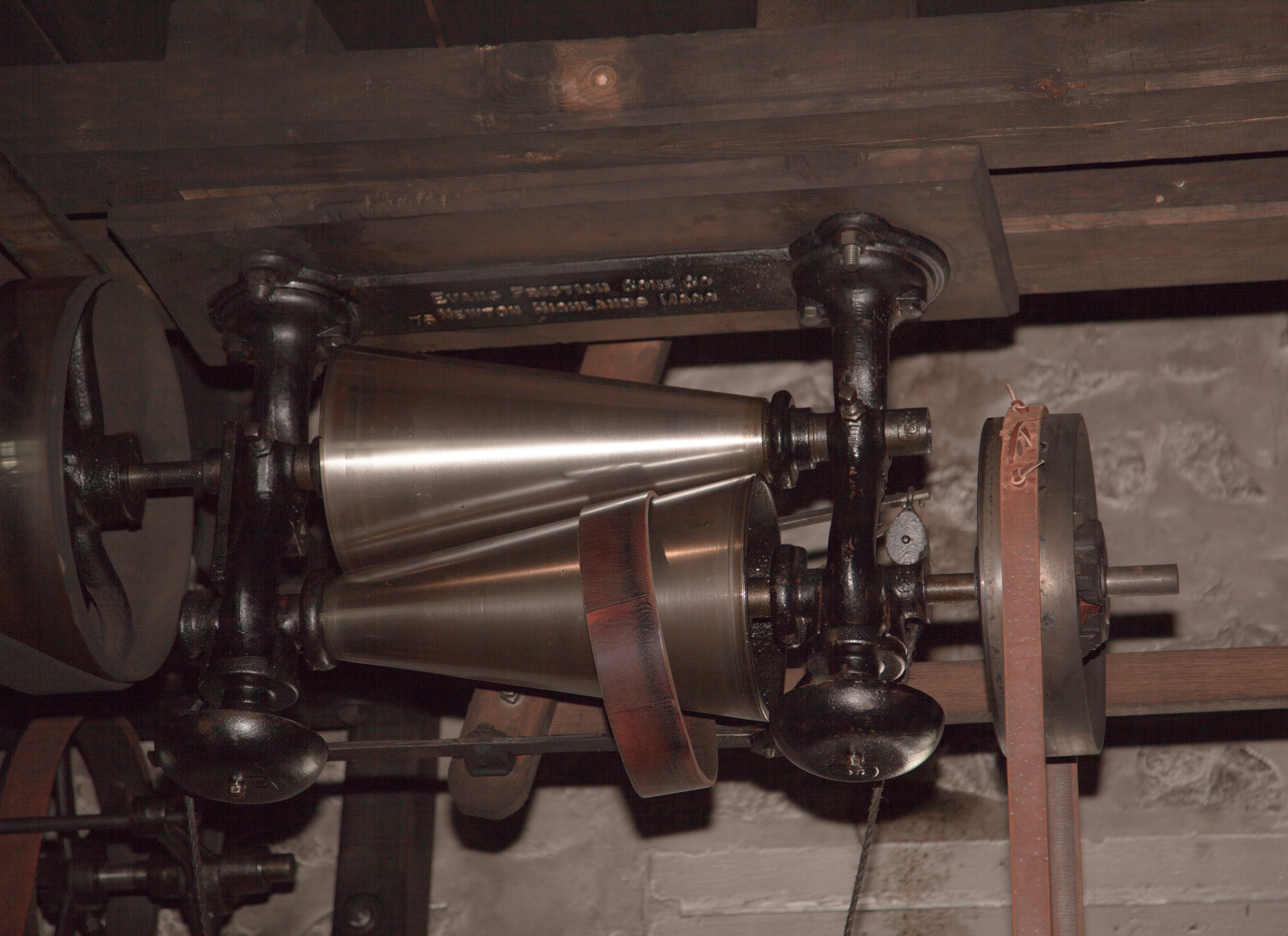 Evans Friction Cone, Cone Ring Transmission, variable speed mechanism, machine shop, Hagley Museum